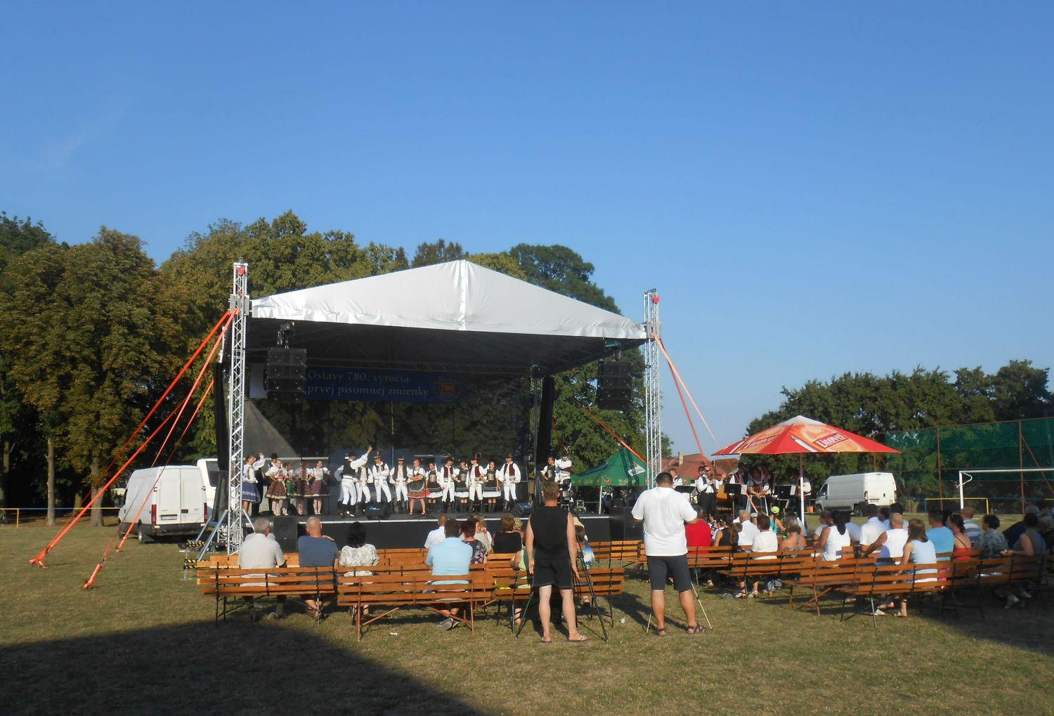 Celebration of the 780th anniversary of the first written remark of the village